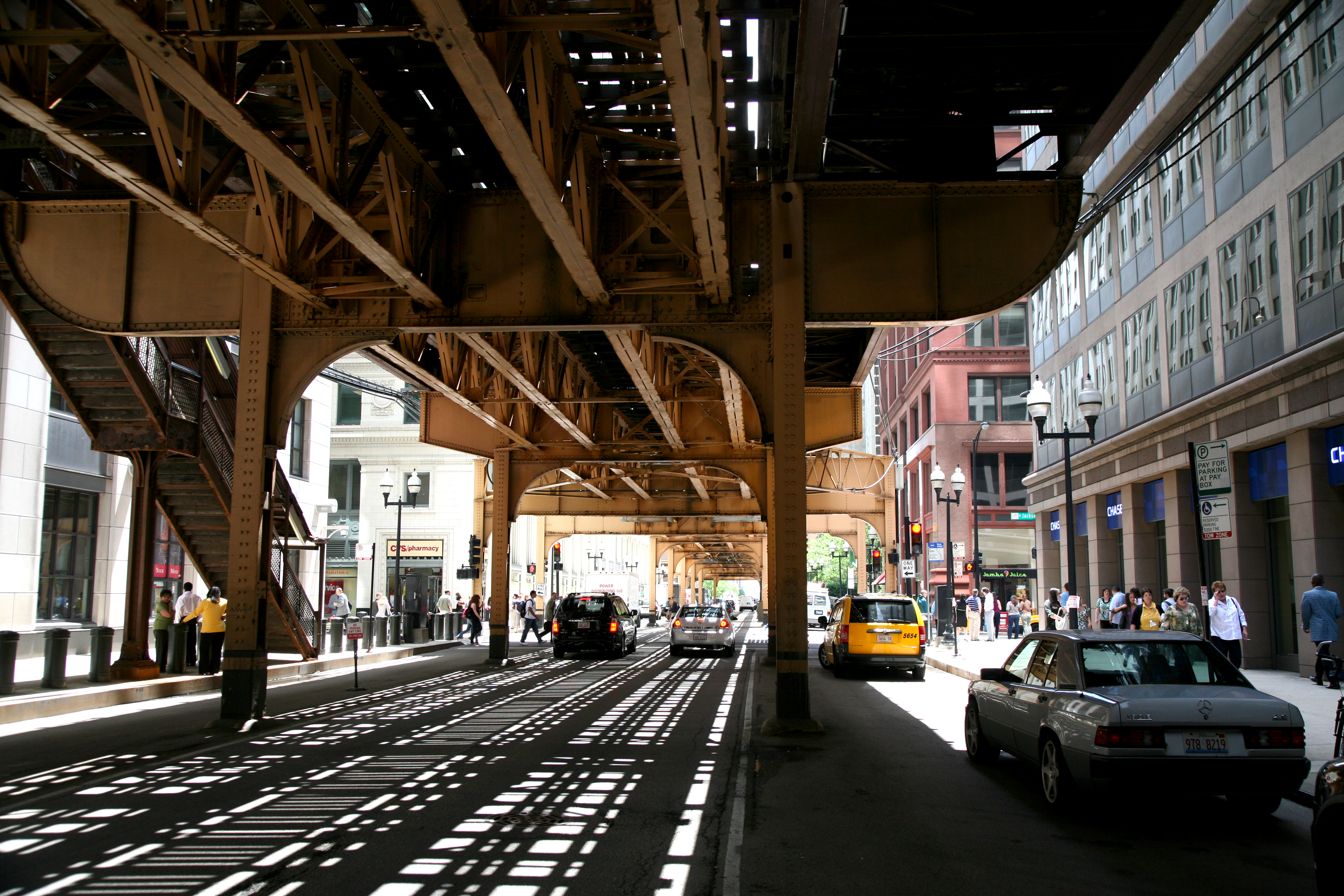 Chicago (ILL) Downtown, S Wells St. " under the Loop, Traffic "